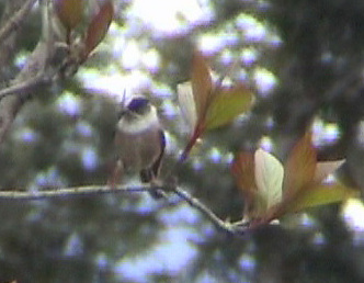 White-throated Tit Aegithalos niveogularis in Uttarakhand, India.